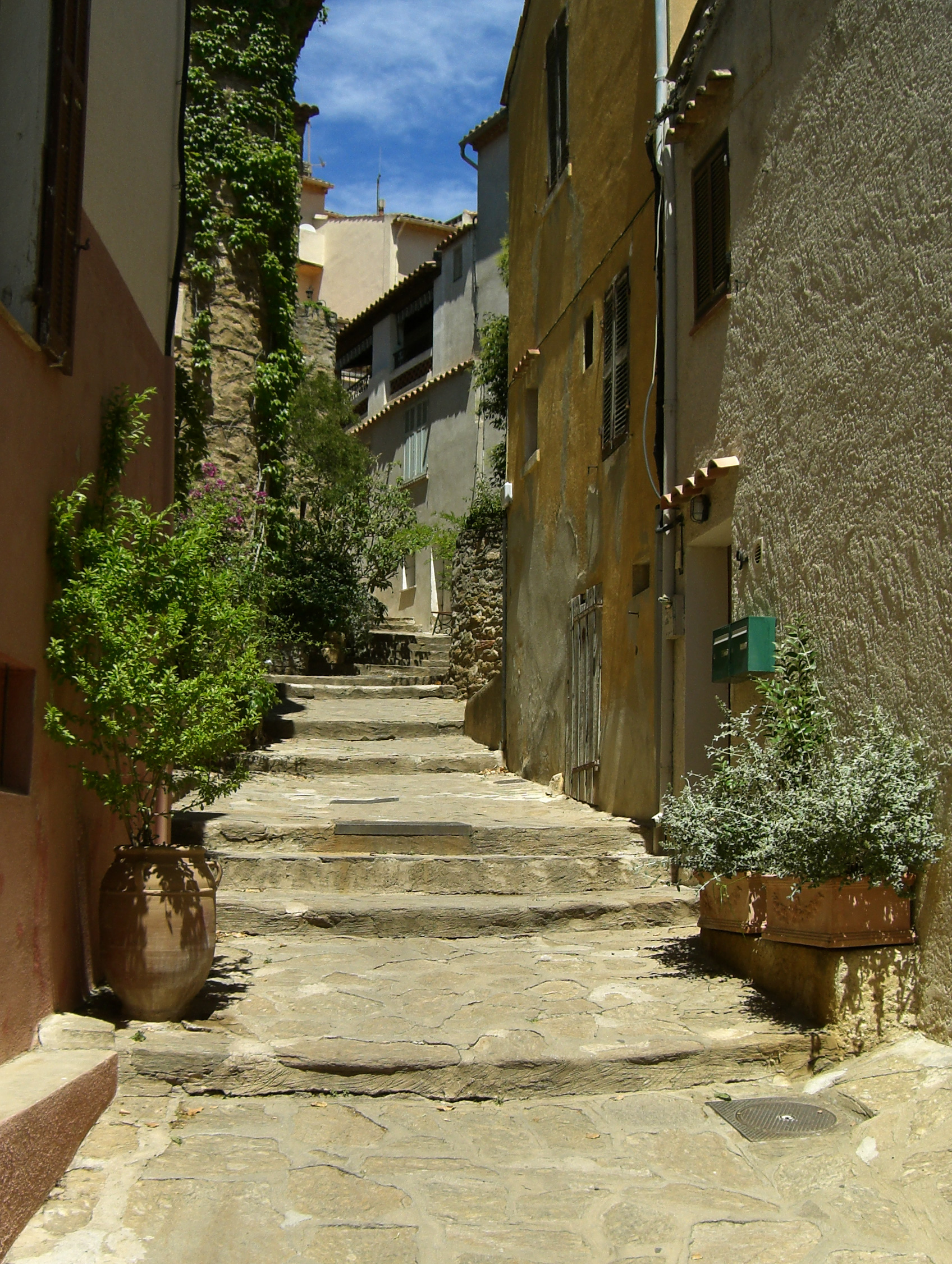 Bormes-les-Mimosas, France, in the village